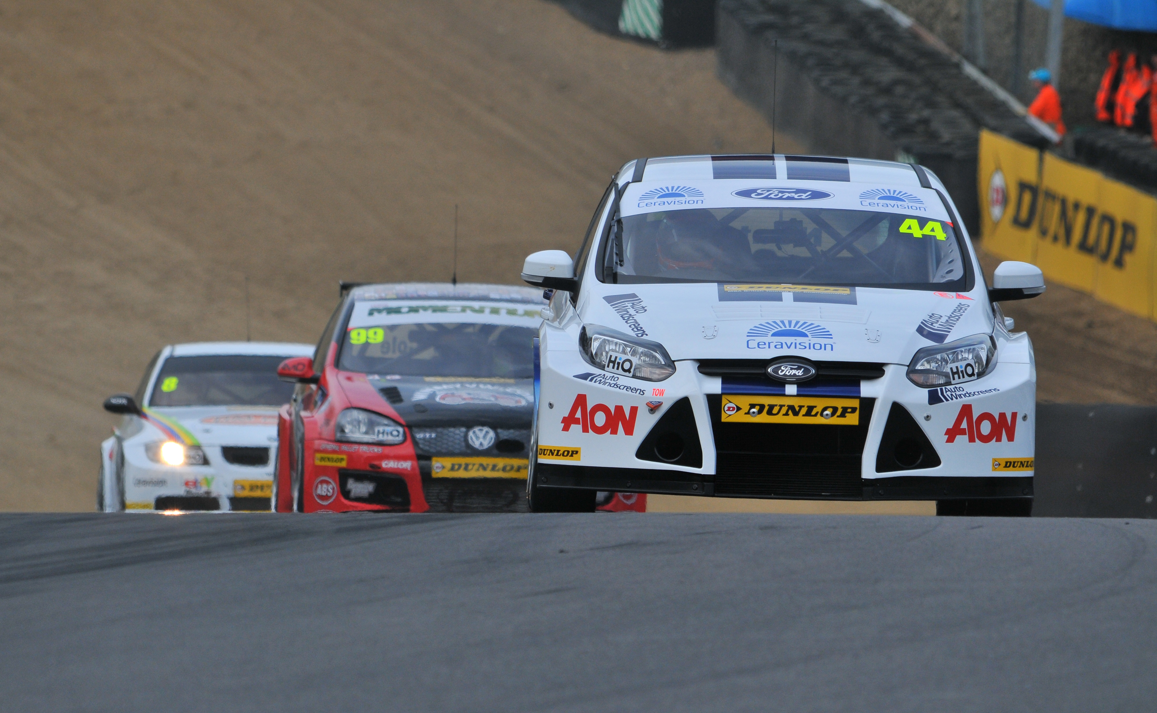 Andy Neate, Tom Onslow-Cole and Rob Collard at Brands Hatch in the 2011 British Touring Car Championship. Original description from flickr: BTCC Touring Car Championship April 2011